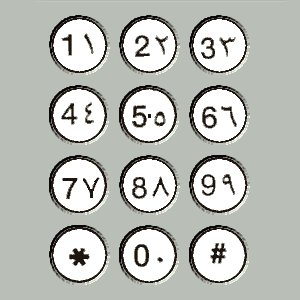 I made this photo myself. Its now in the Public Domain